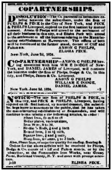 Partnership of Phelps, Peck desolved